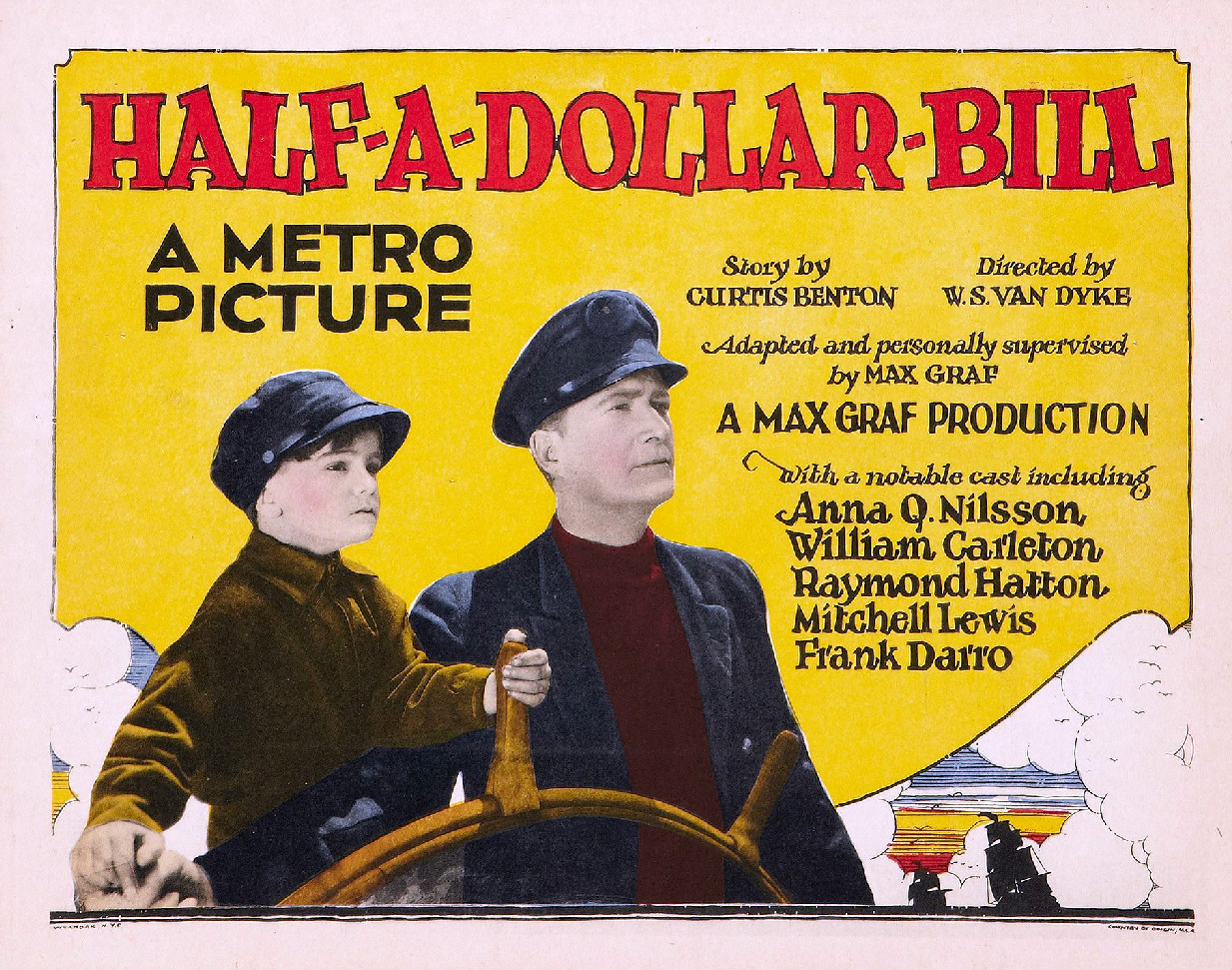 Lobby card for the American drama film Half-A-Dollar-Bill (1924). There are no copyright marks on the item. At bottom left is Wyanoak NYC-they printed the card. At bottom right is Country of origin USA.